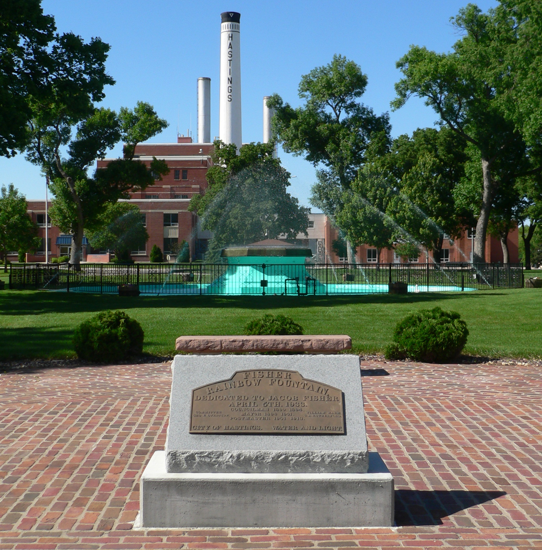 Fisher Rainbow Fountain, in Hastings Utilities Park at 12th Street and Denver Avenue in Hastings, Nebraska; seen from the south.